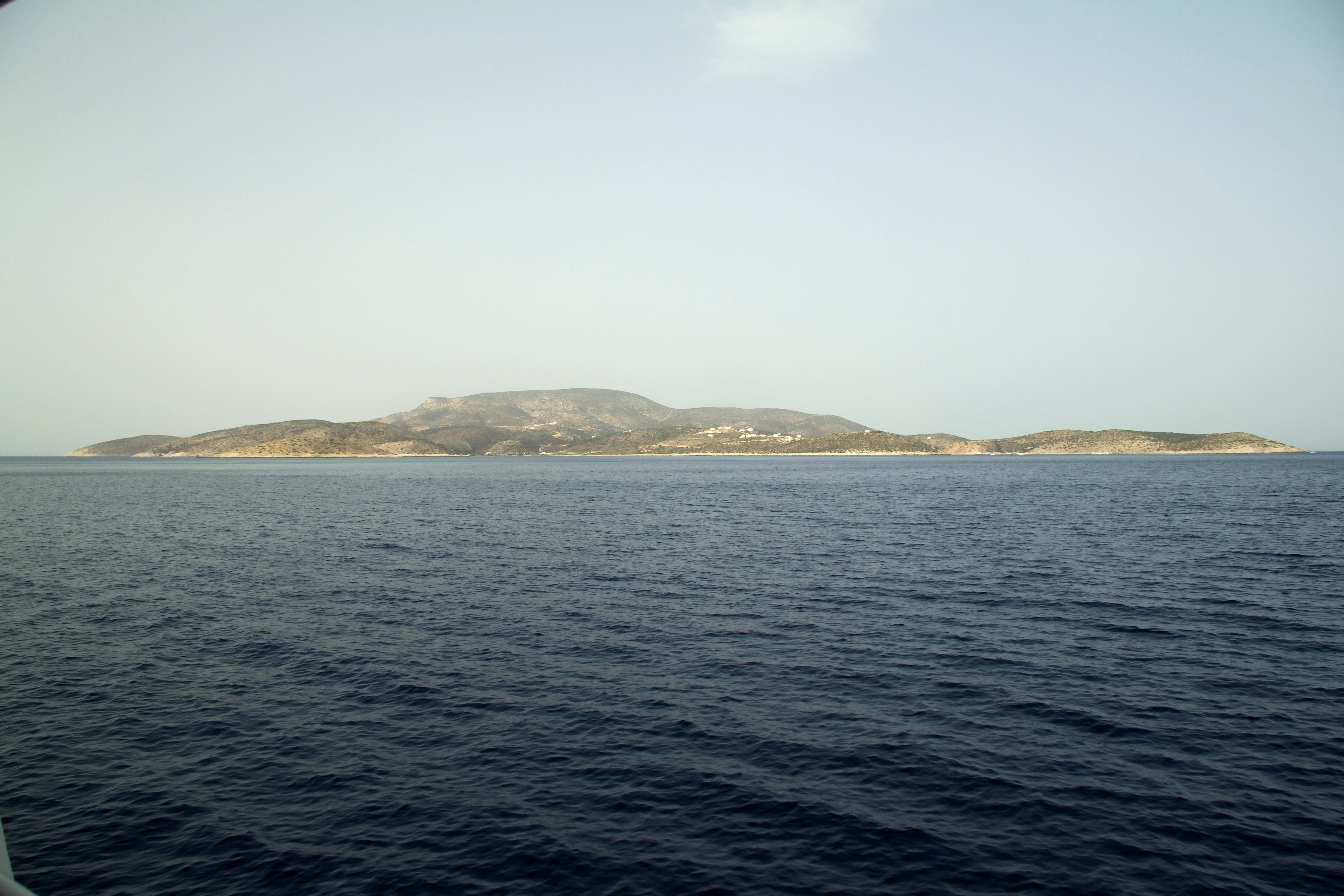 Irakliea. Small cyclades.